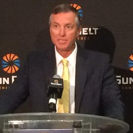 Willie Fritz, head coach of the Georgia Southern Eagles football team, at the 2015 Sun Belt Conference Media Day in the Mercedes-Benz Superdome in New Orleans.